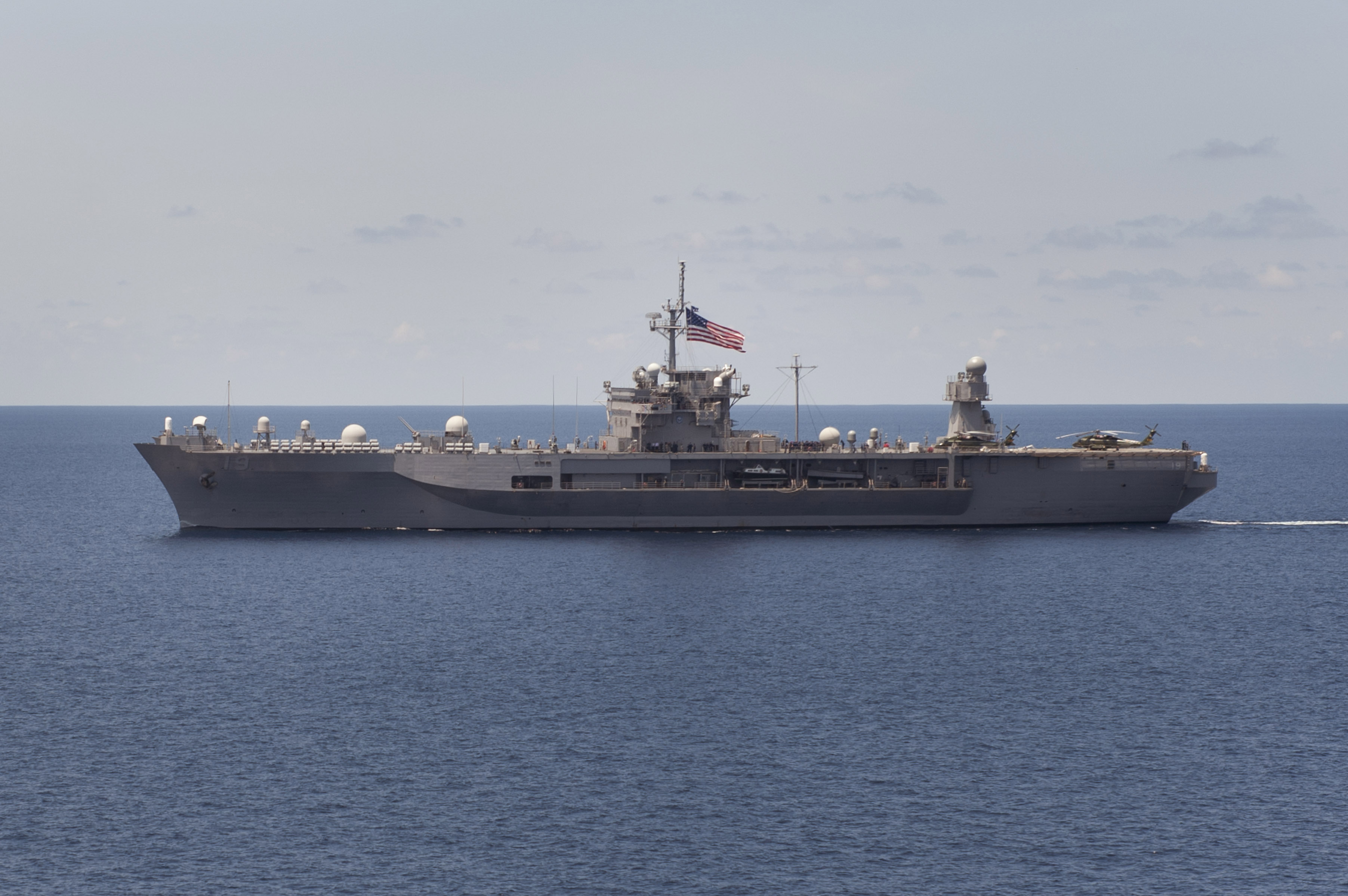 120521-N-KS651-173 SOUTH CHINA SEA (May 21, 2012) The U.S. 7th Fleet flagship USS Blue Ridge (LCC 19) as seen from the amphibious dock landing ship USS Pearl Harbor (LSD 52) as they transit through the South China Sea. Pearl Harbor and embarked Marines assigned to the 11th Marine Expeditionary Unit (11th MEU) are deployed in the 7th fleet area of operations, as part of the Makin Island Amphibious Ready Group. (U.S. Navy photo by Mass Communication Specialist 2nd Class Jason Behnke/Released)